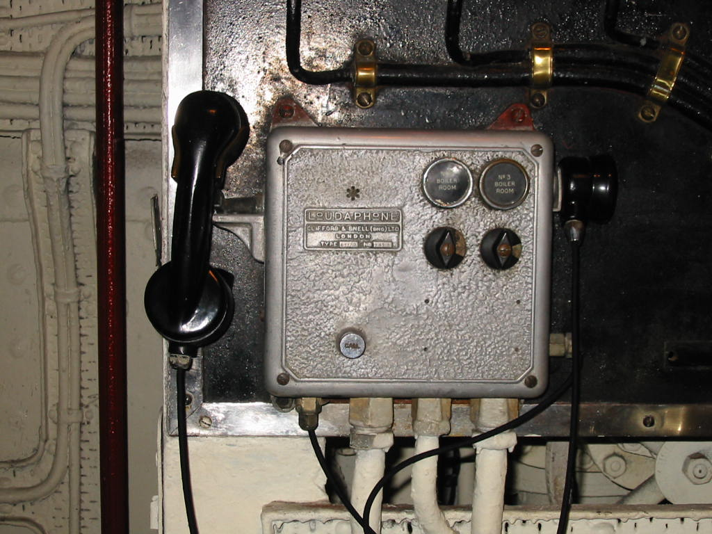 Loudaphone intercom made by Clifford & Snell and installed aboard the RMS Queen Mary. Source Photographed by myself (Binksternet) aboard the Queen Mary in Long Beach, California, 2002.